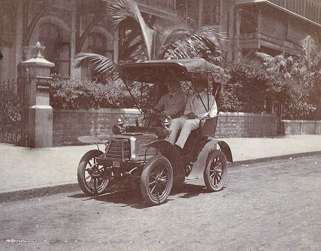 Image of India during the British Raj.